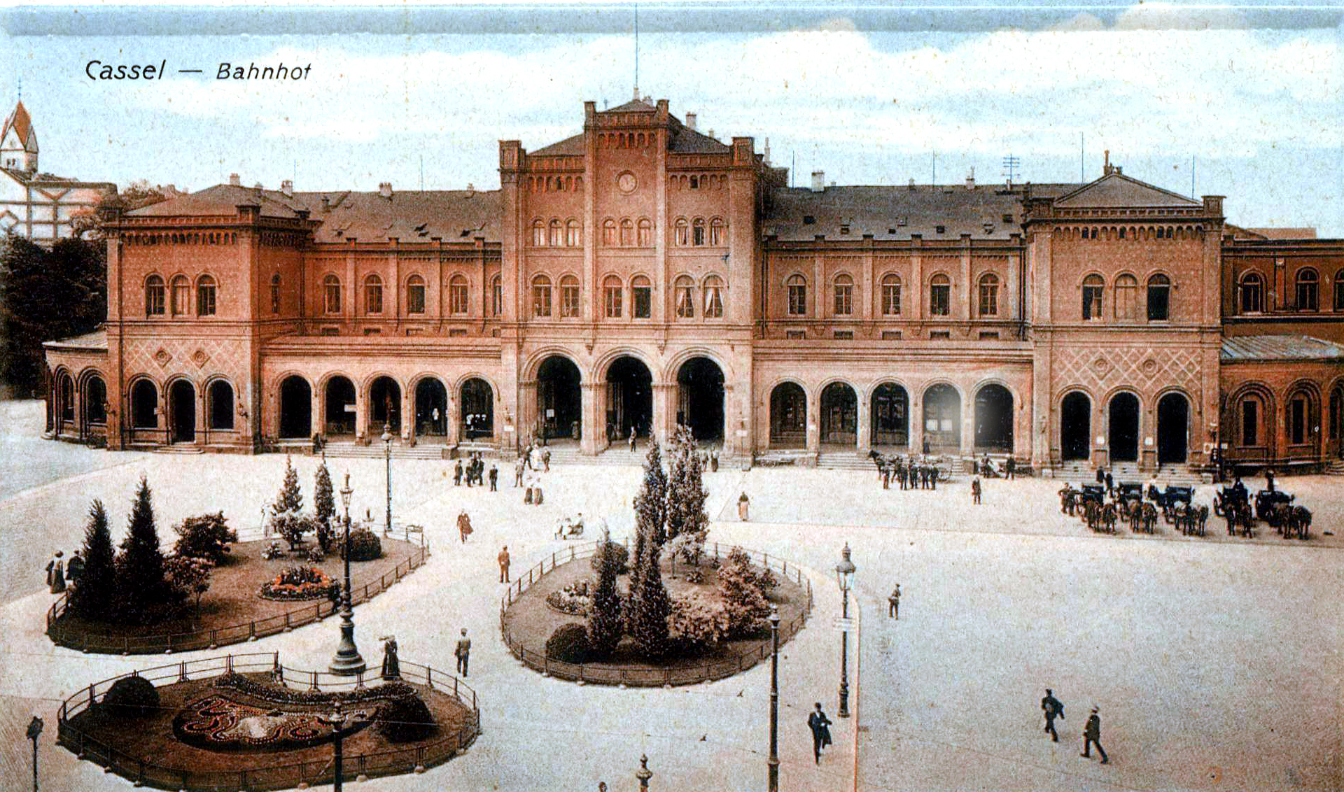 Old postcard of the central station in Kassel, about 1900